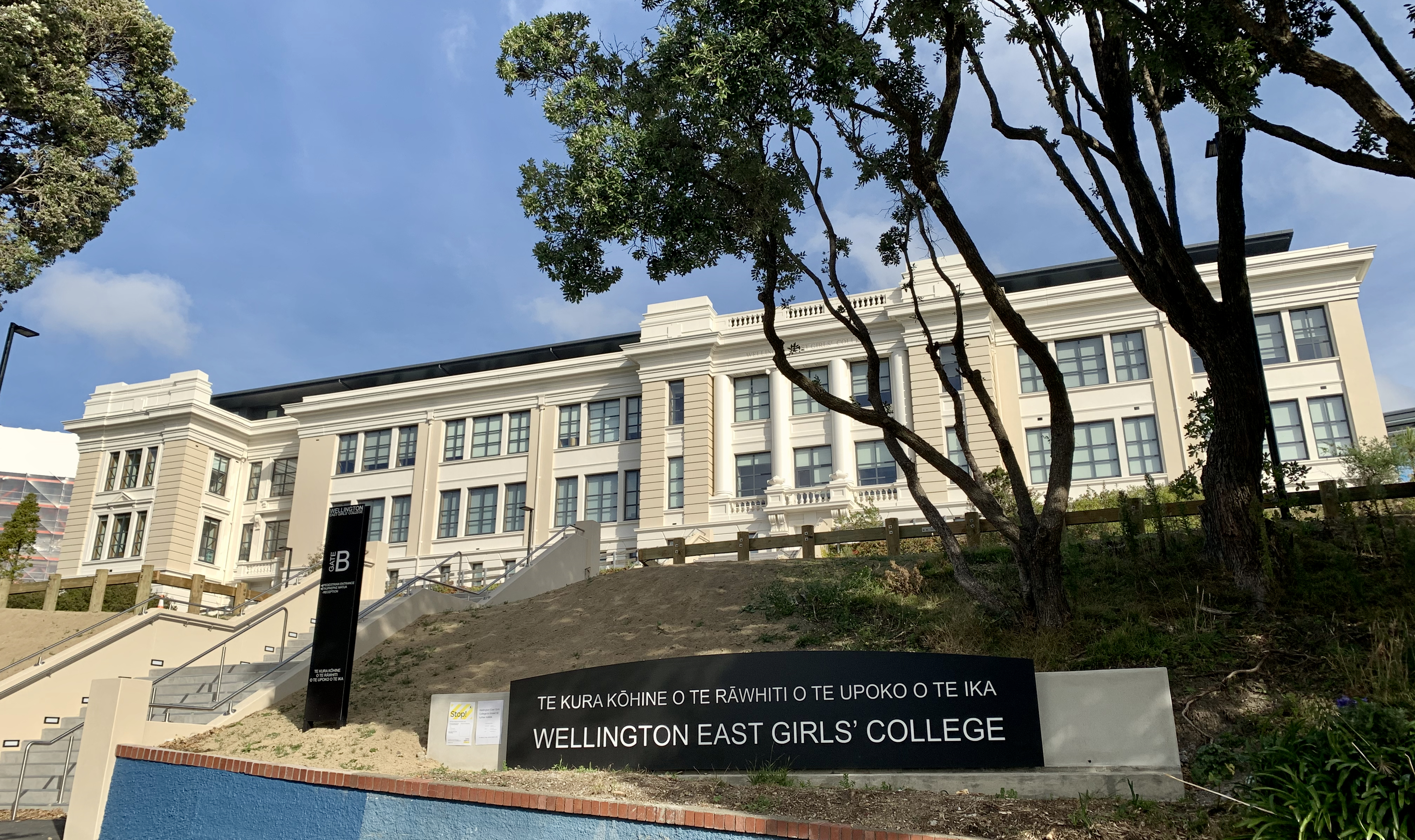 This is a photograph of the Category I Historic Place Main Building of Wellington East Girls' College | Te Kura Kōhine o te Rāwhiti o Te Upoko o Te Ika, Mount Victoria, Wellington, New Zealand, taken from the school's Gate B entrance.